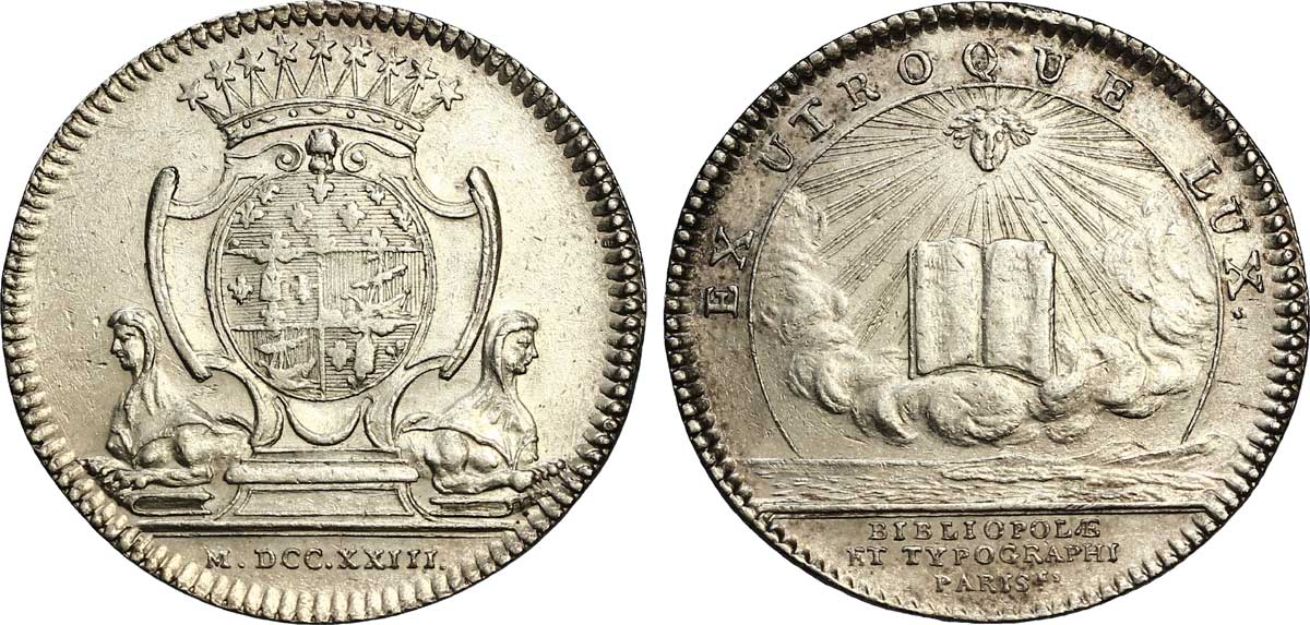 Jeton de la corporation des libraires et imprimeurs, 1723